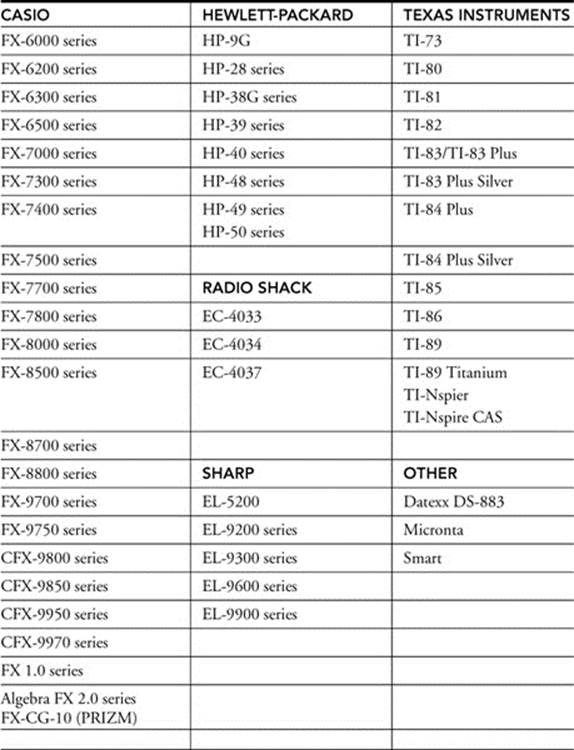 Shows Allowed Calculators on the AP Exams